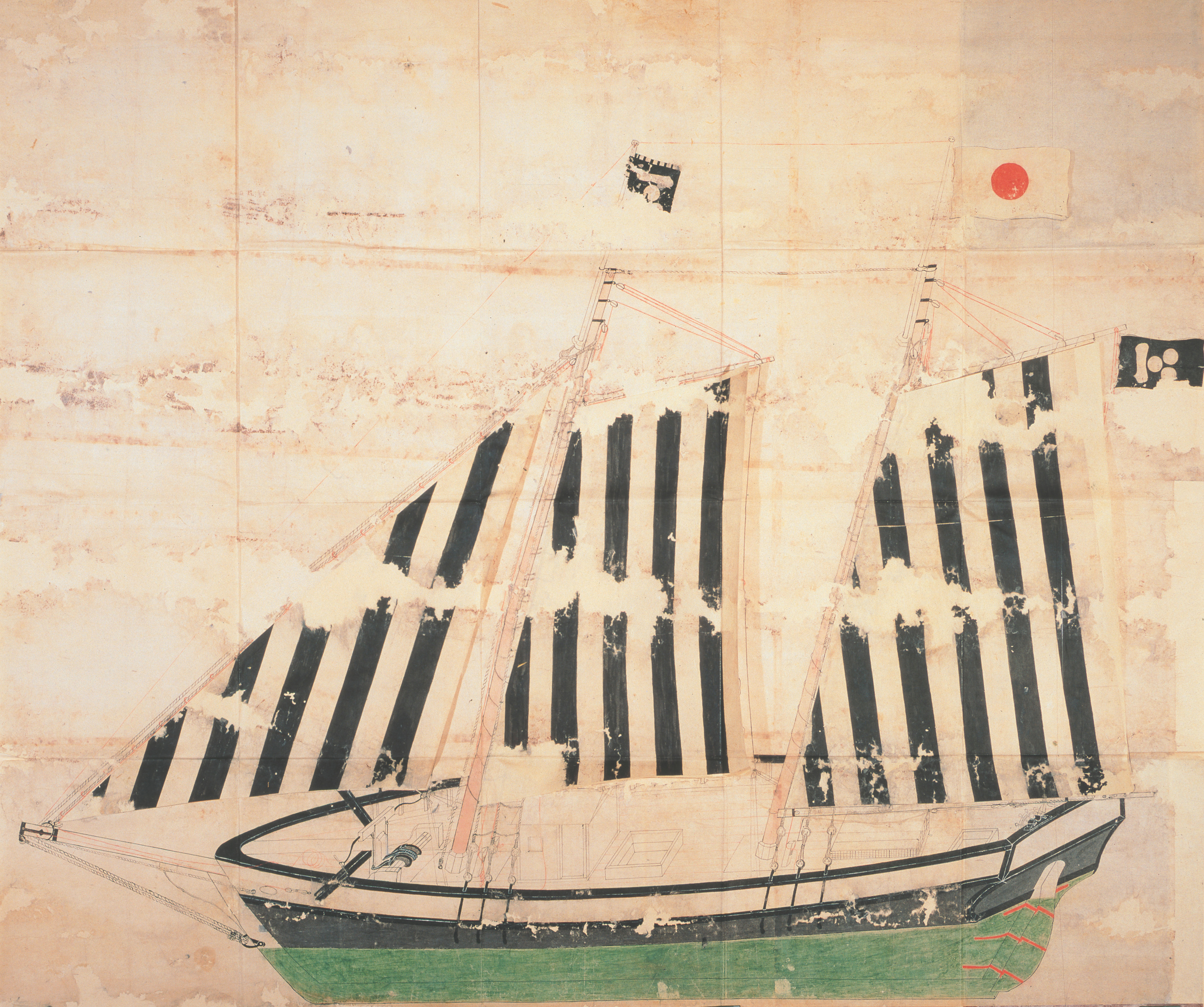 Japanese schooner Heisin Maru build by Chōshū Domain in 1856, Yamaguchi Prefectural Archives, Yamaguchi, Yamaguchi, Japan